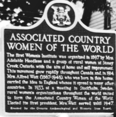 Legacy and influence In 1958, a plaque honouring the ACWW was set up in Collingwood, Ontario.